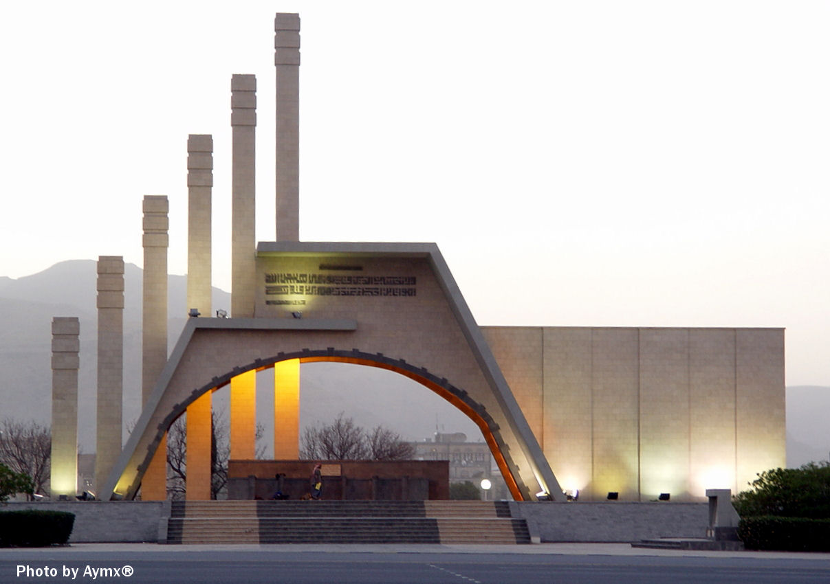 Contemporary Monument on Assab'ain Street, in Sana'a, Yemen. The photo was taken by Aymx